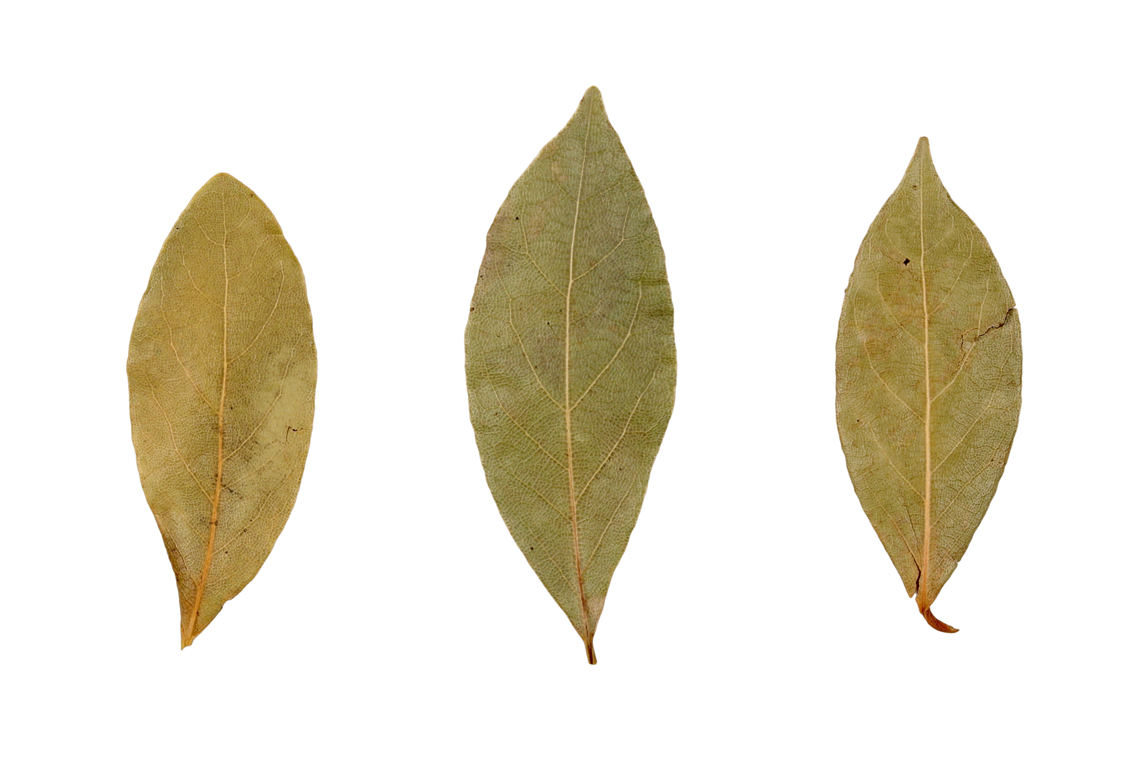 Dried Indian Bay(Cinnamomum tamala) leaves that are commonly used in cooking and known for their fragrance.